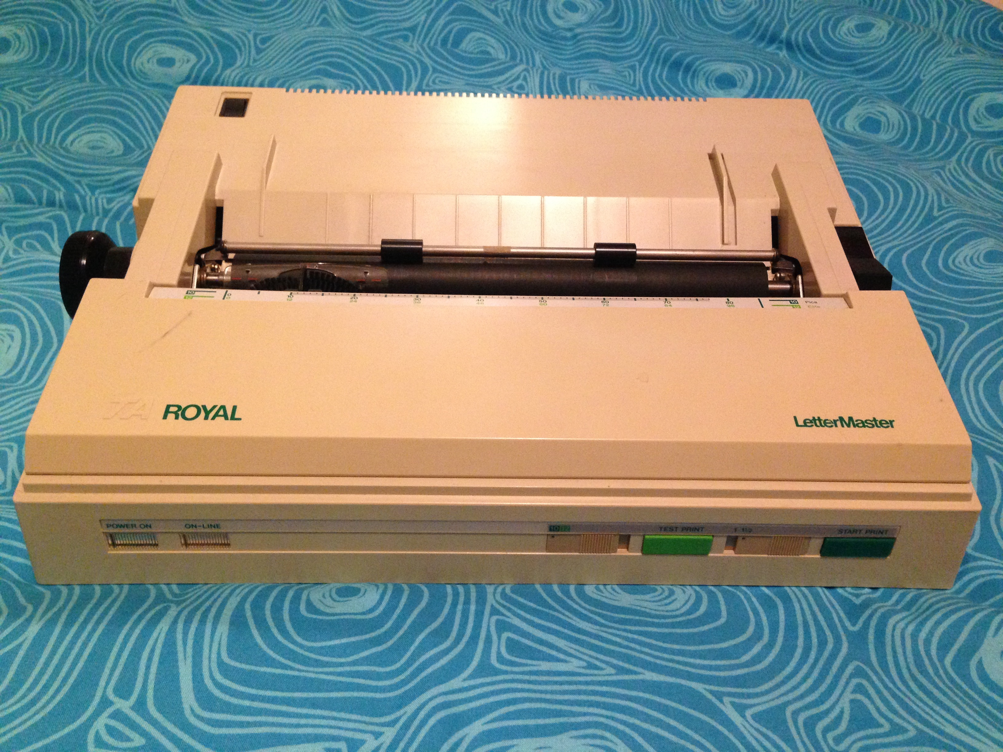 View from the front of the Royal LetterMaster, a budget daisy-wheel printer from the 1980s.